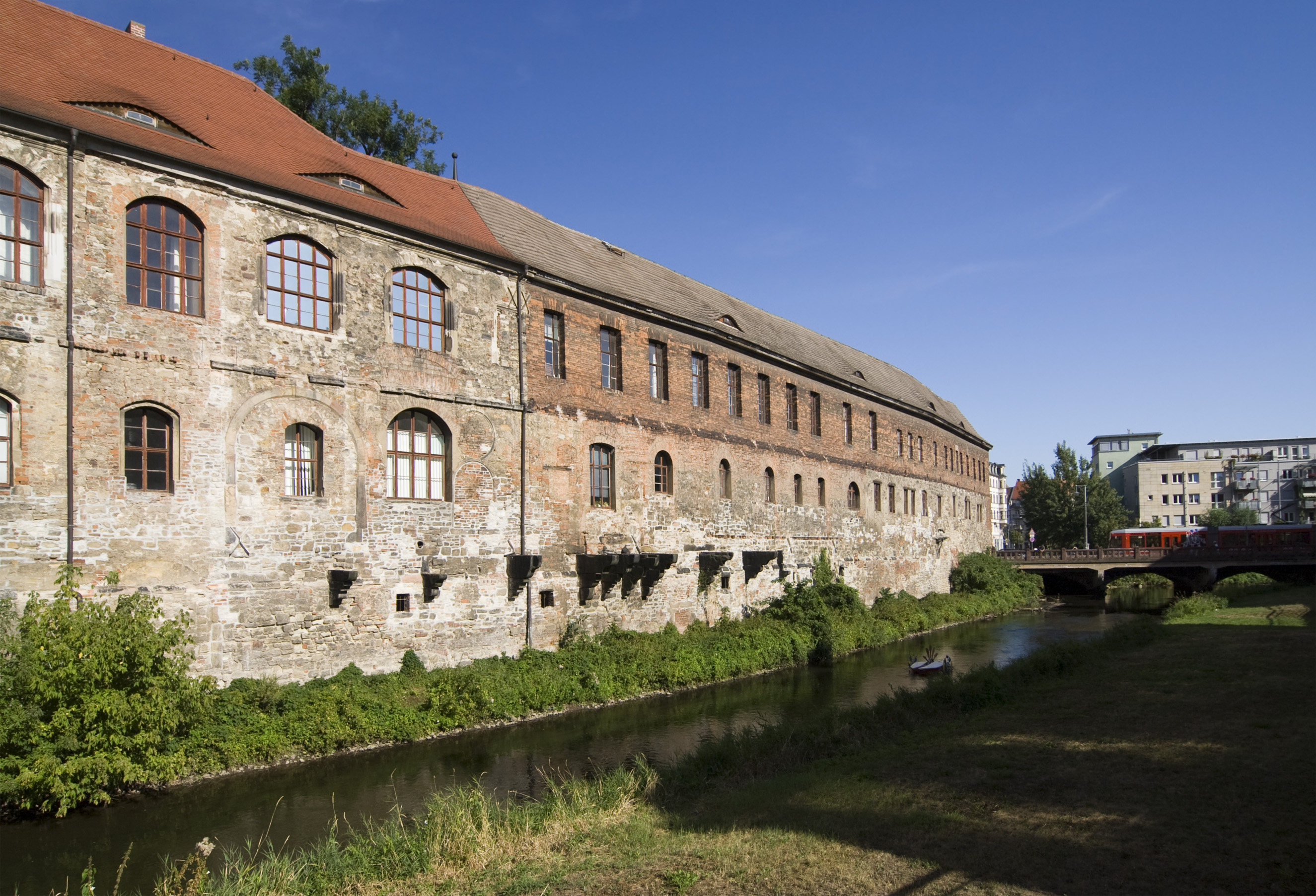 New Residence in Halle/Saale, Germany